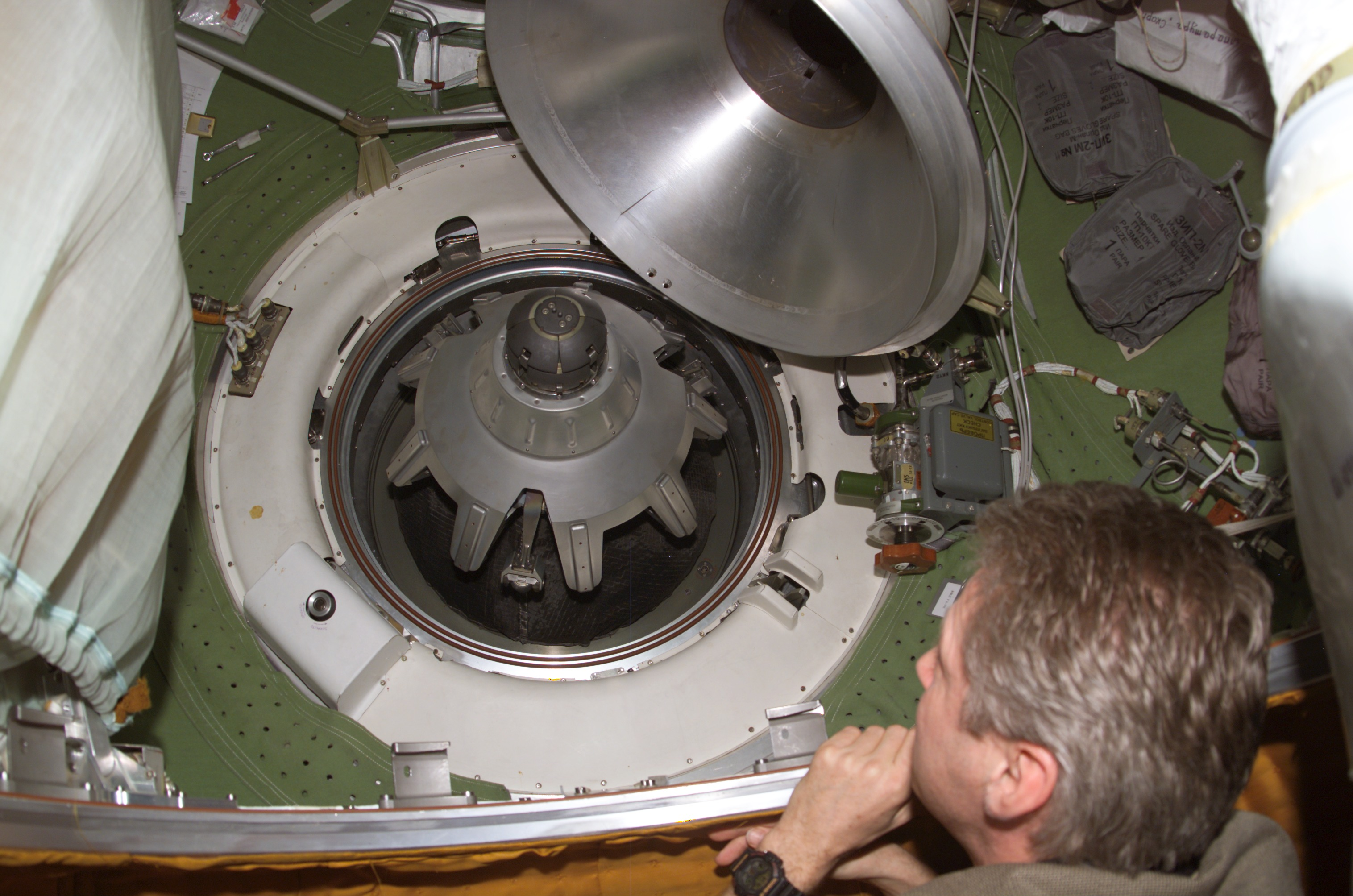 European Space Agency (ESA) astronaut Thomas Reiter, Expedition 14 flight engineer, photographed near a docking port in the Pirs Docking Compartment Zarya module of the International Space Station. The probe-and-cone docking mechanism from Soyuz TMA-8 is visible in the port.